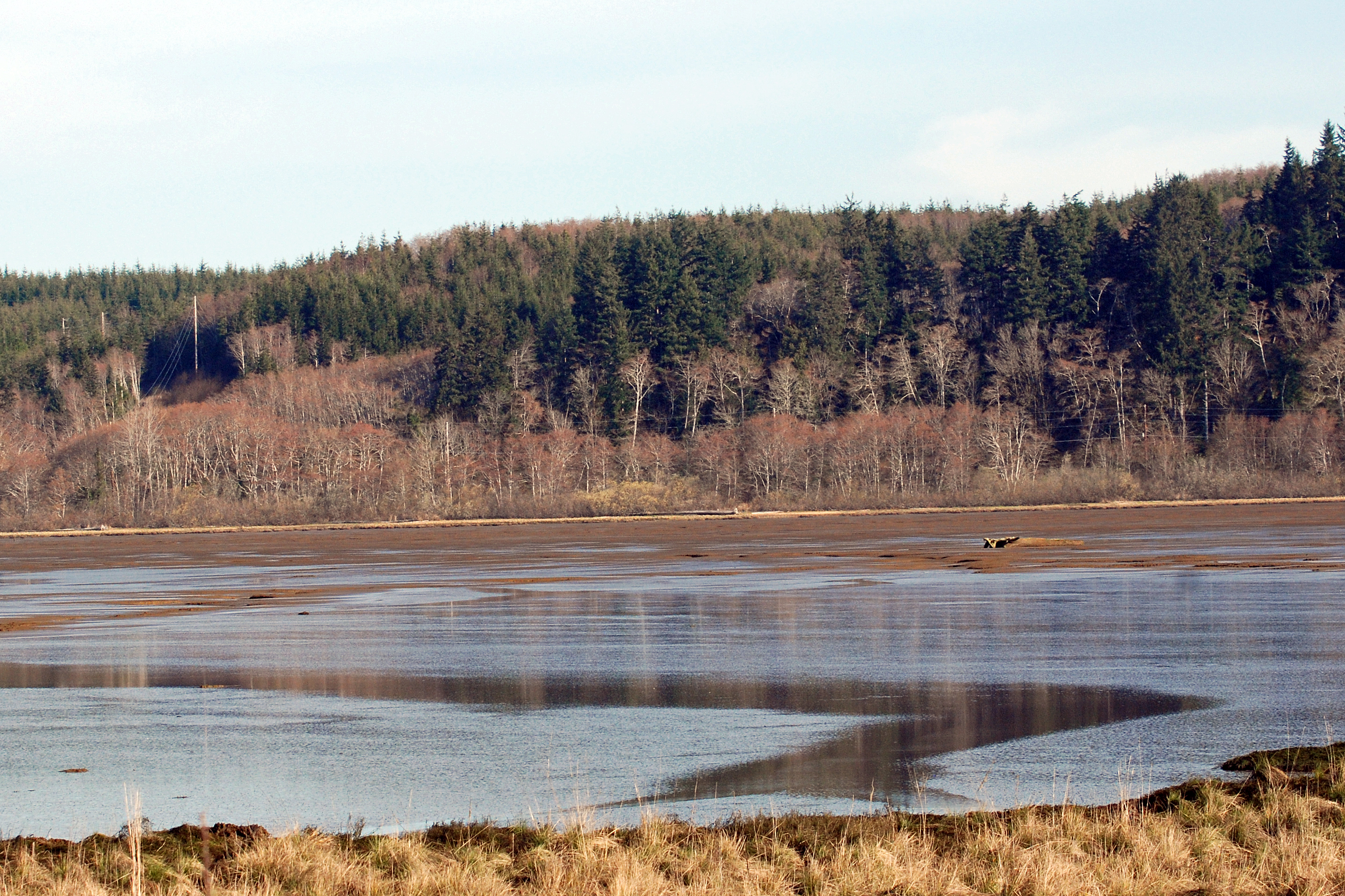 Saltmarsh as seen from the Sandpiper Trail at Grays Harbor National Wildlife Refuge, Washington / Operated by the U. S. Fish and Wildlife Service - U. S. Department of the Interior